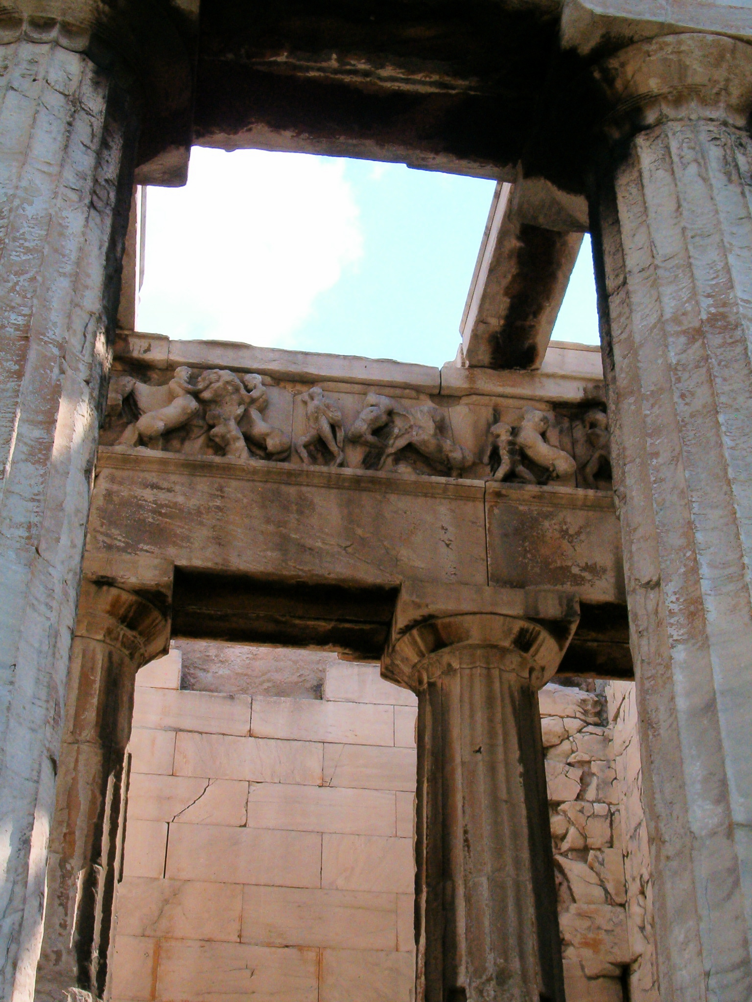 Temple of Hephaestus in Athens Interno / Interior